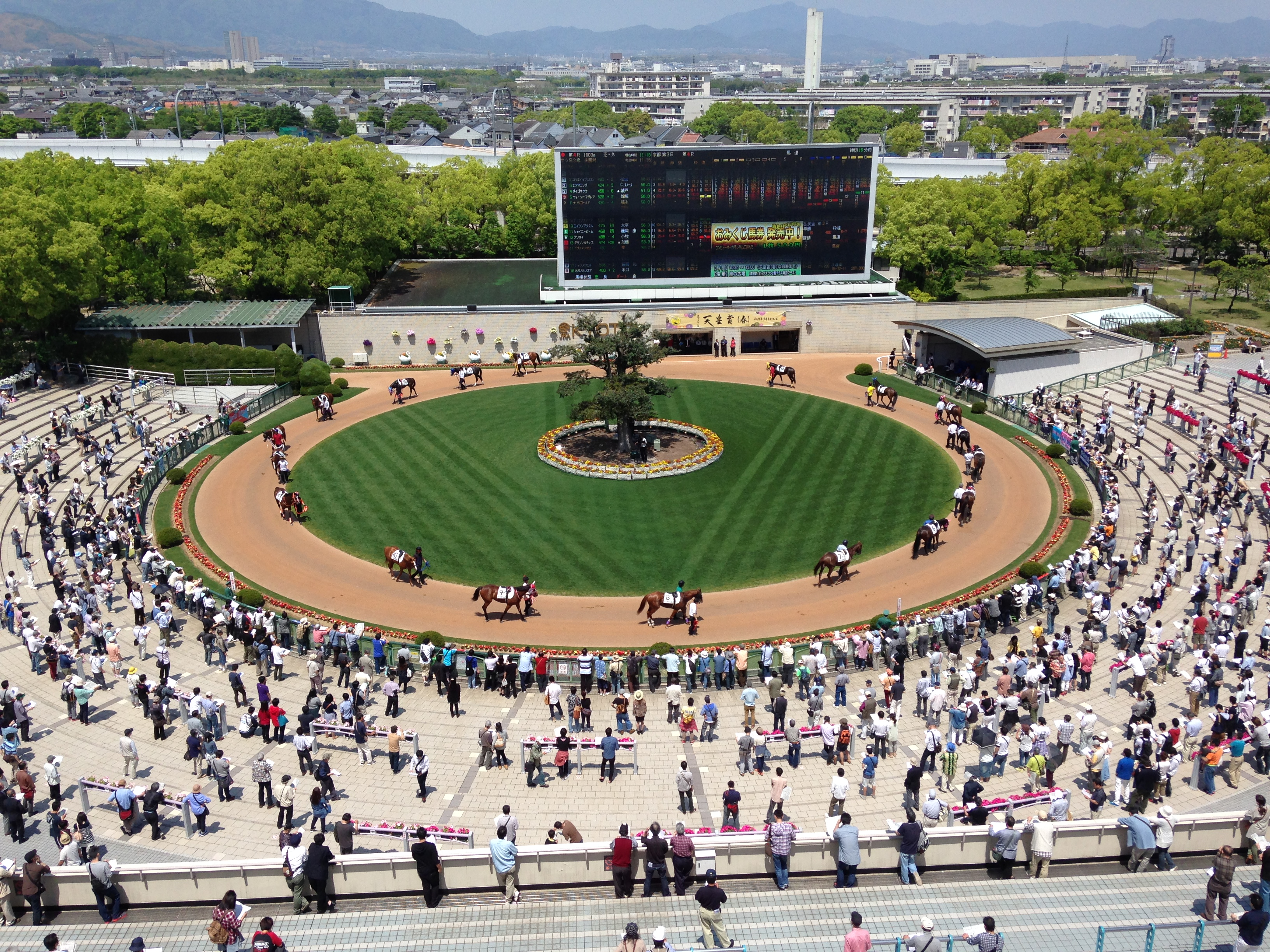 150502-Kyoto-Race-Course-001